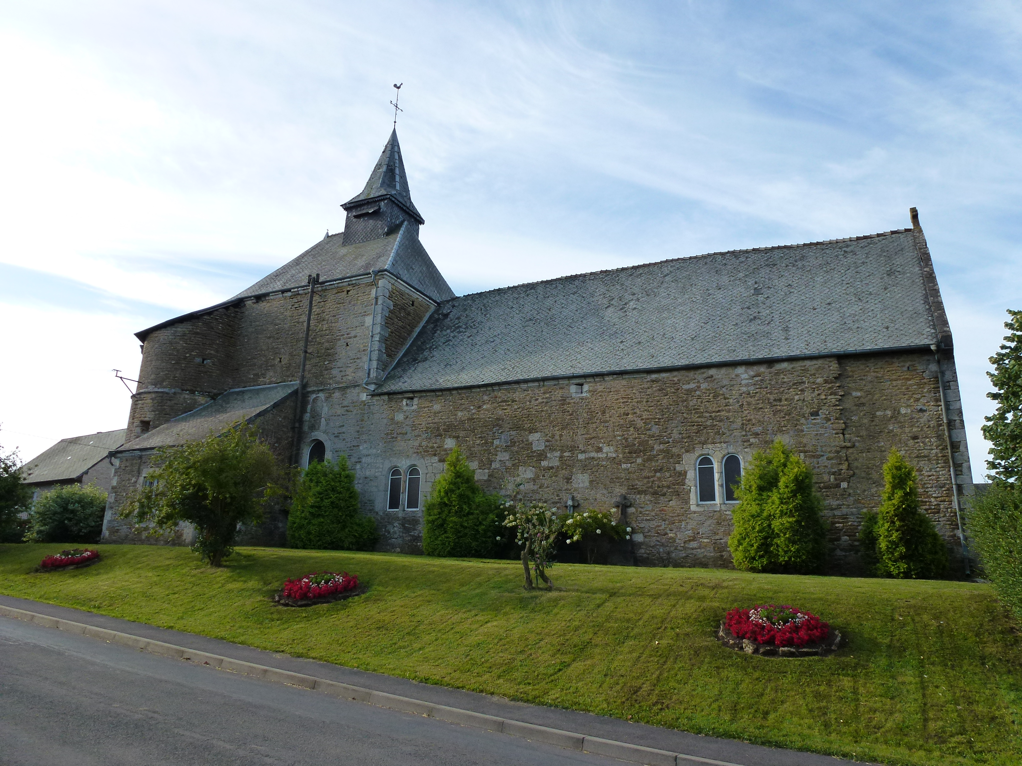 Tarzy (Ardennes) église, éxtérieur